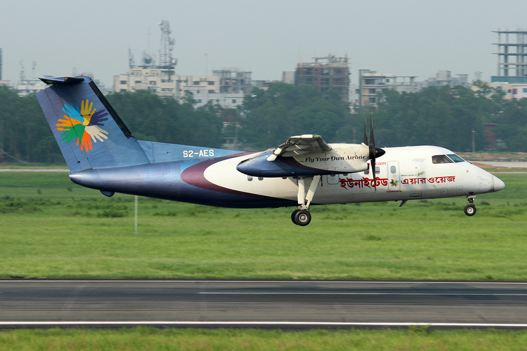 United Dash-8(S2-AES),landing at VGHS.